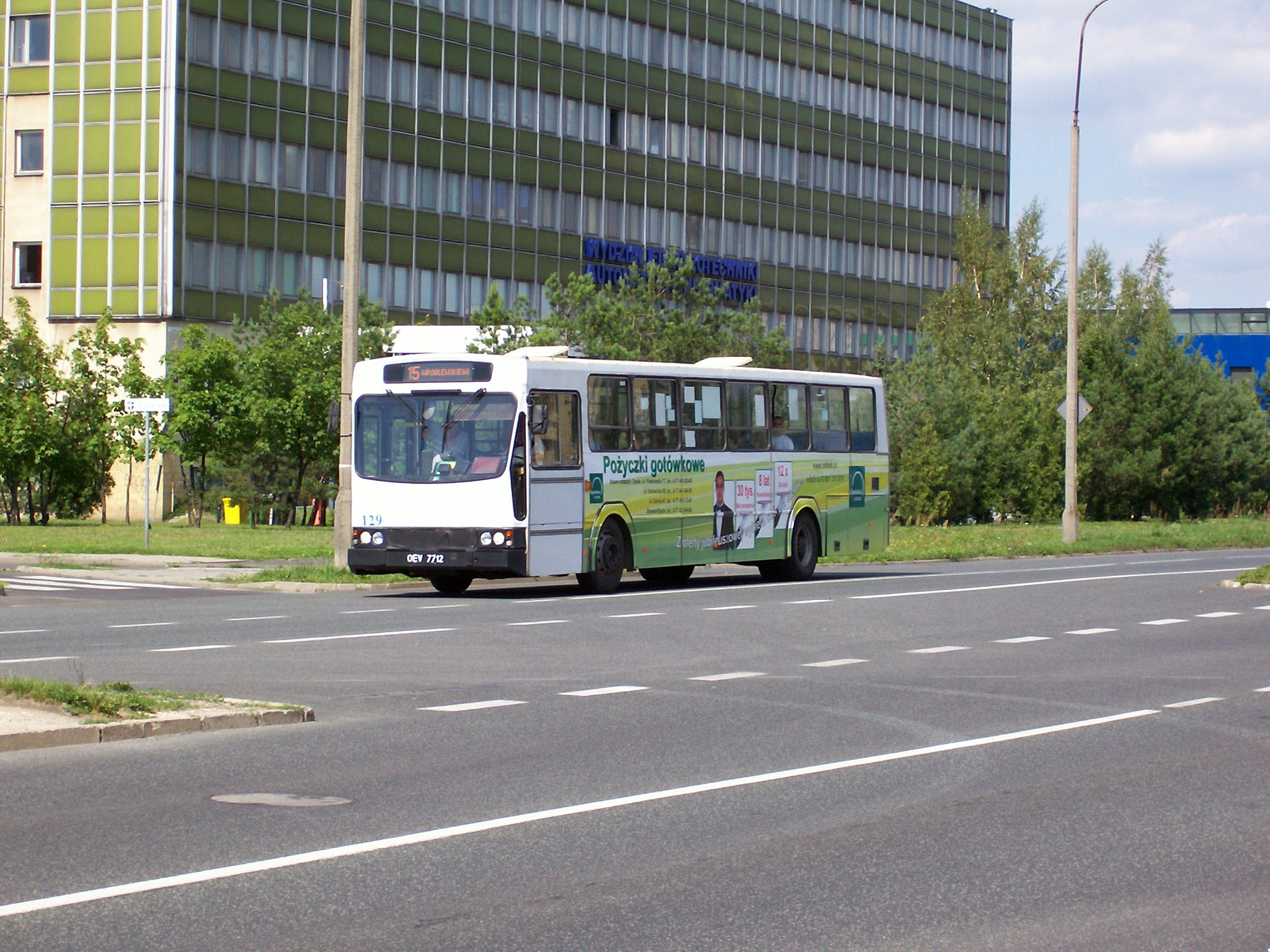 Jelcz 120M bus (#129) at Sosnkowskiego street in Opole, Poland. Built 1994, MZK Opole operator.